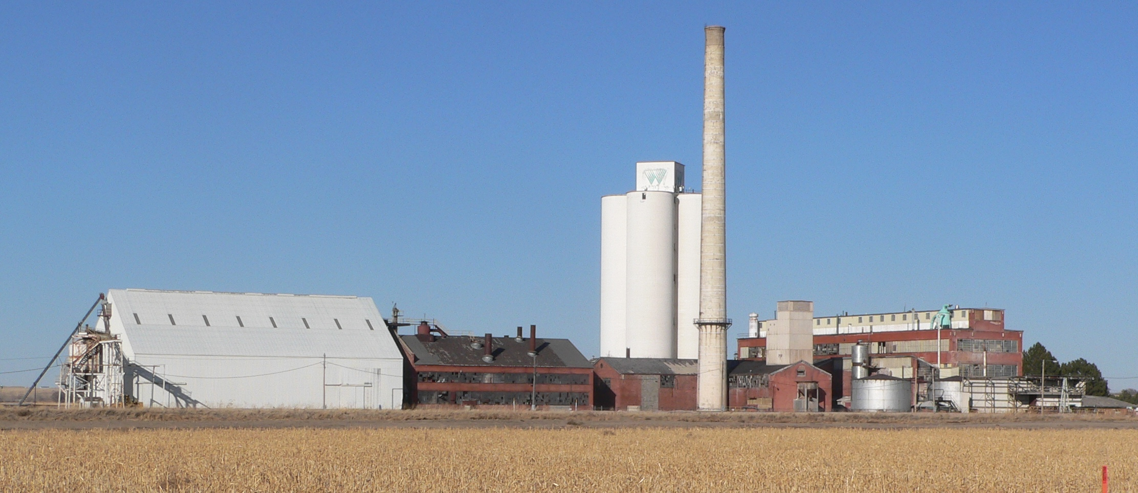 Sugar factory and storage elevator at northwestern edge of Mitchell, Nebraska.